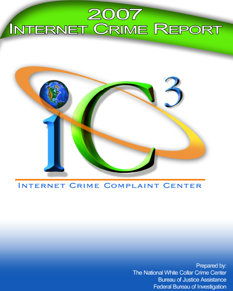 Cover of 2007 Internet Crime Report